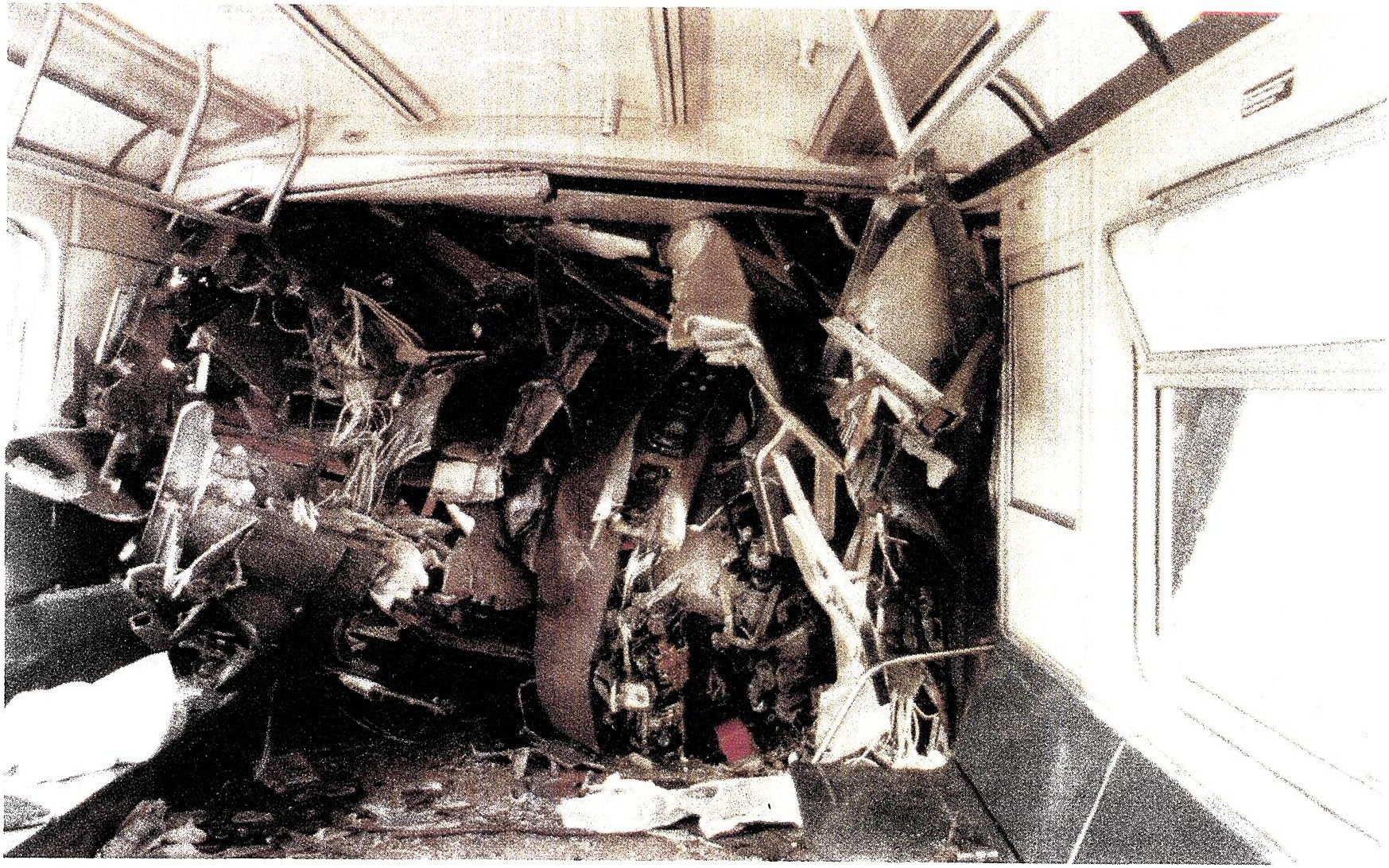 Interior of the J train in the aftermath of the 1995 Williamsburg Bridge collision